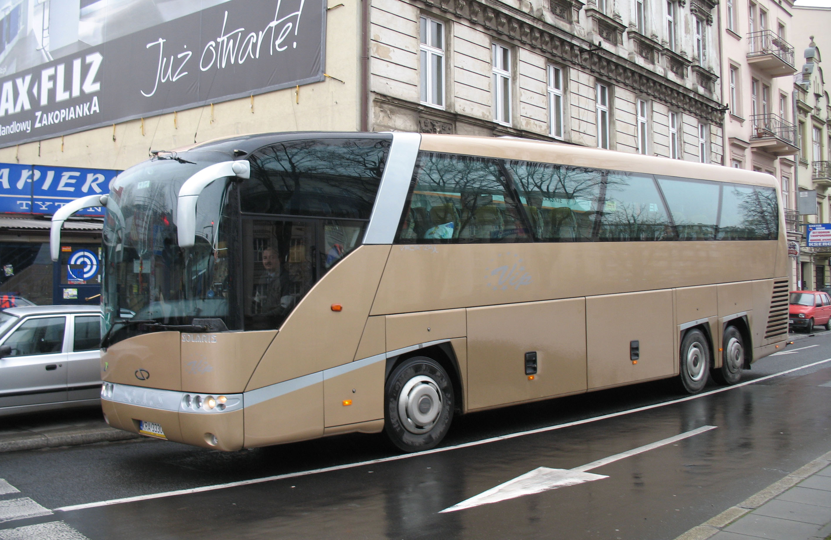 Solaris Vacanza 13 coach in Kraków, Poland. Built 2006, Transpol Kraków operator.